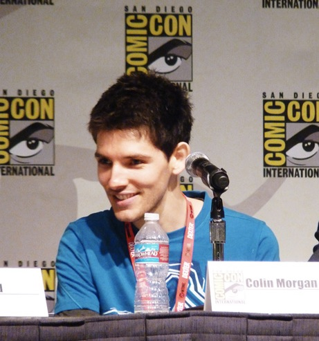 Colin Morgan at 2010 San Diego Comic-Con International.